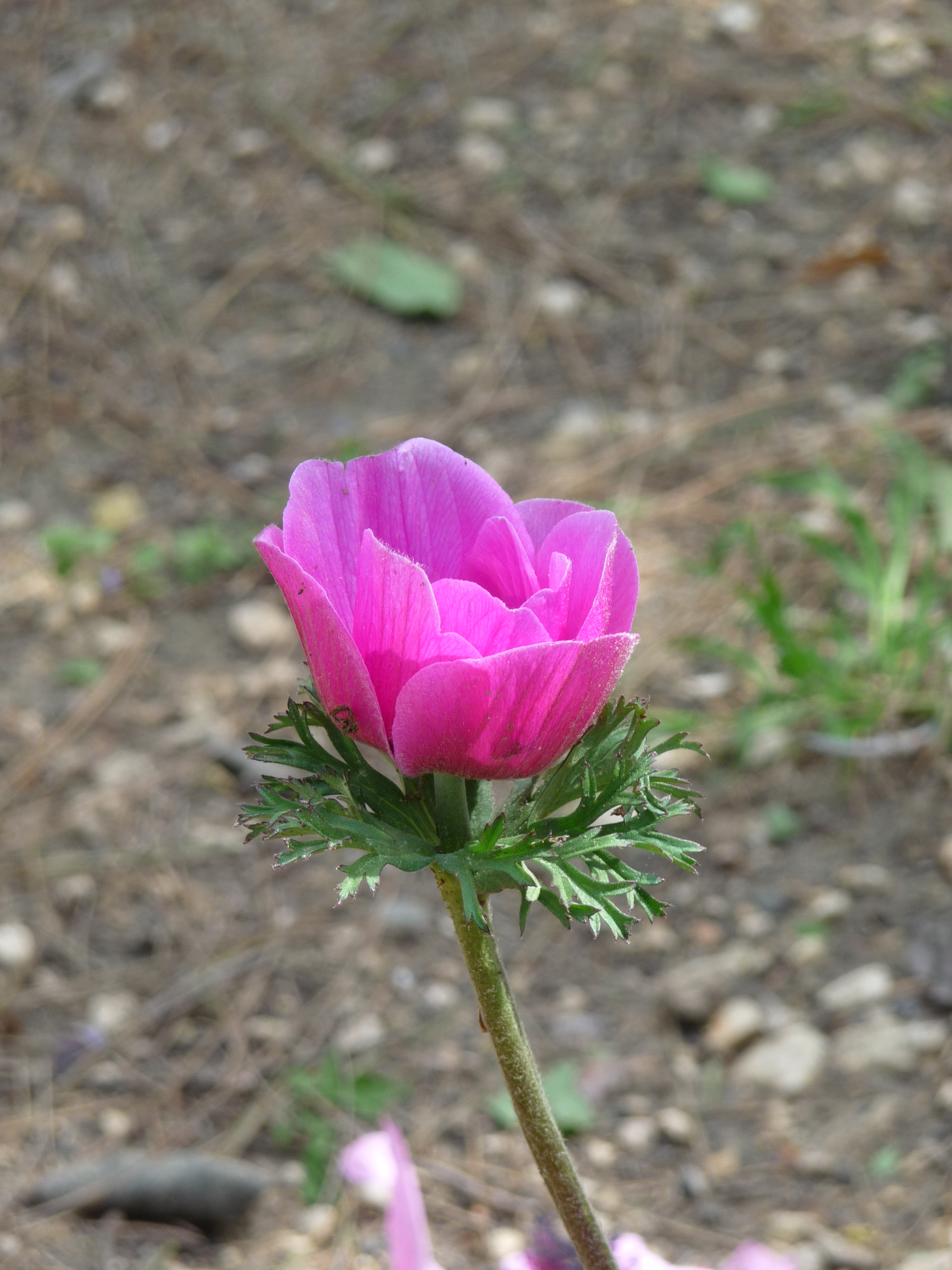 Beit Oren is a kibbutz in northern Israel. It falls under the jurisdiction of Hof HaCarmel Regional Council.